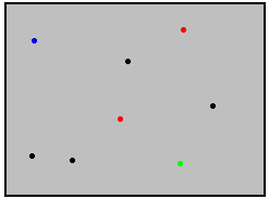 This figure shows dot-defect of LCD. 液晶ディスプレイのドット落ちを示した図です。